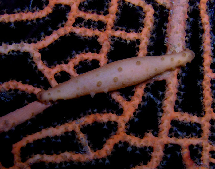 Allied cowry of Genus Aclyvolva